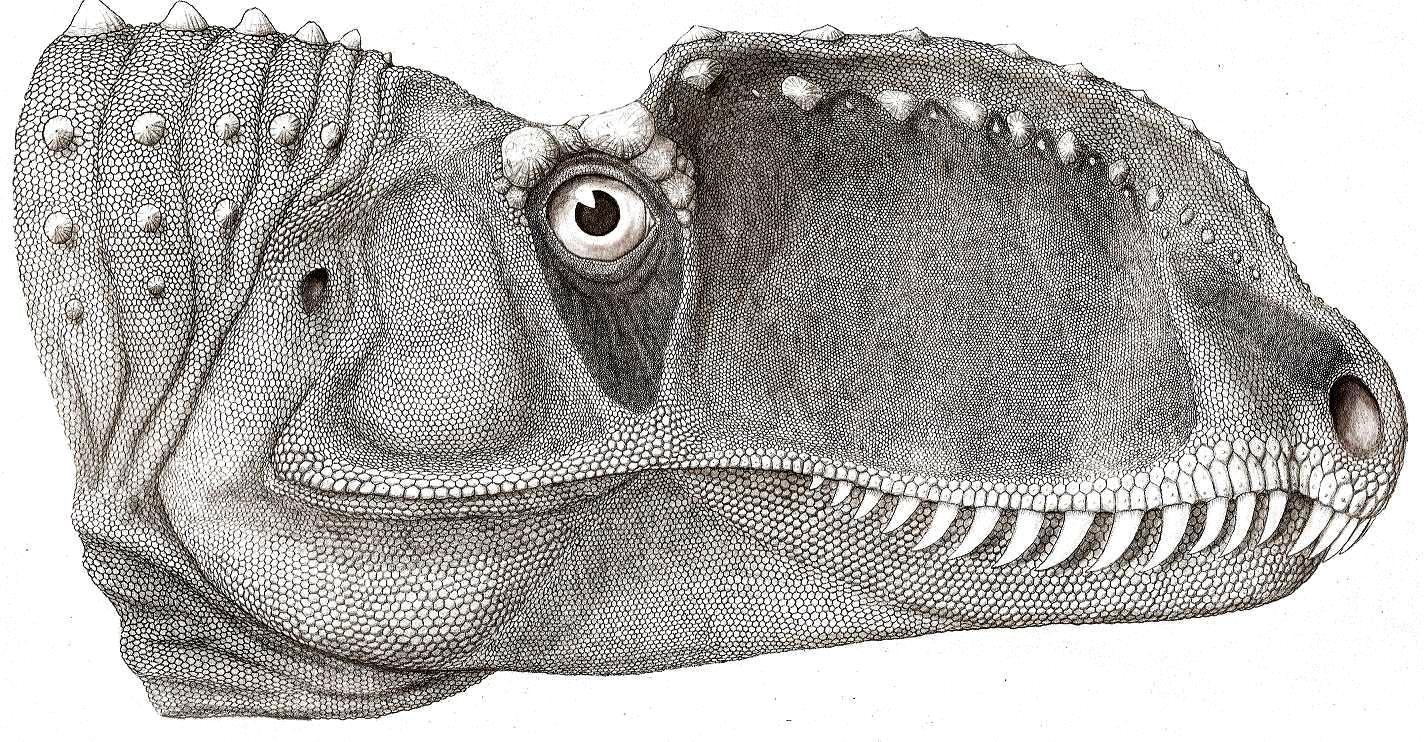 Sinosaurus sinensis (KMV8701)